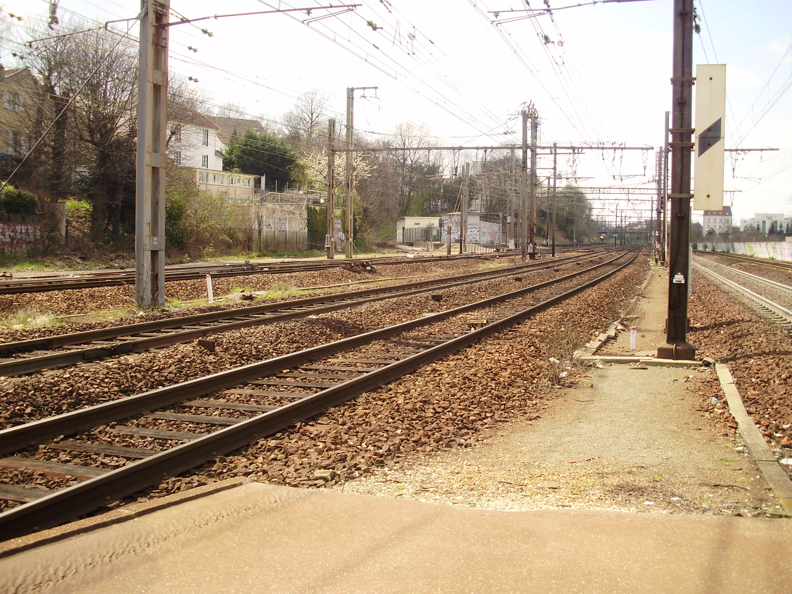 Saint-Cyr station - west extremity of platforms towards Saint-Quentin-en-Yvelines, Yvelines, France